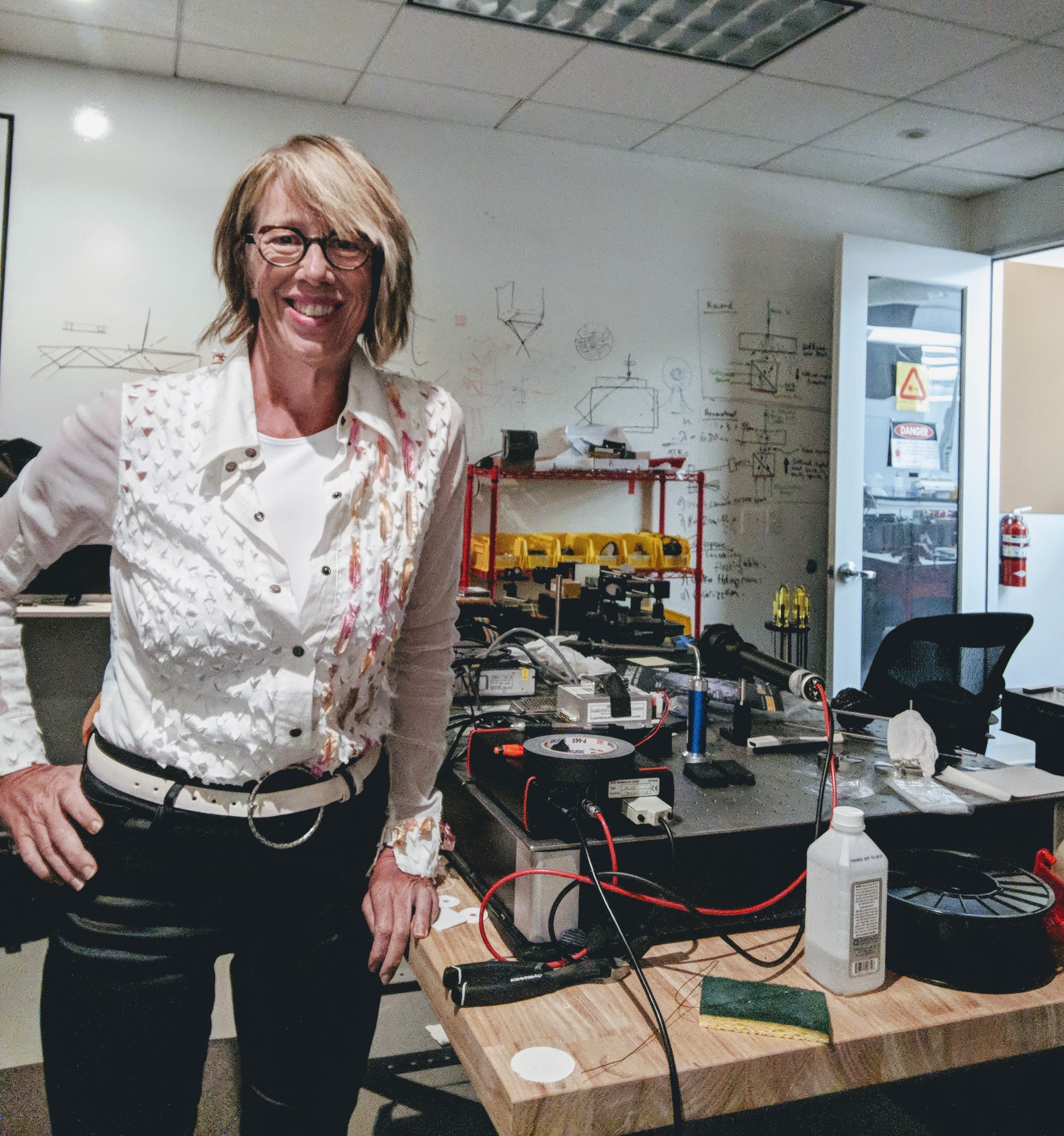 Taken July 21 2018 in Openwater HQ labs in San Francisco. A selfie by Mary Lou Jepsen in an optics lab